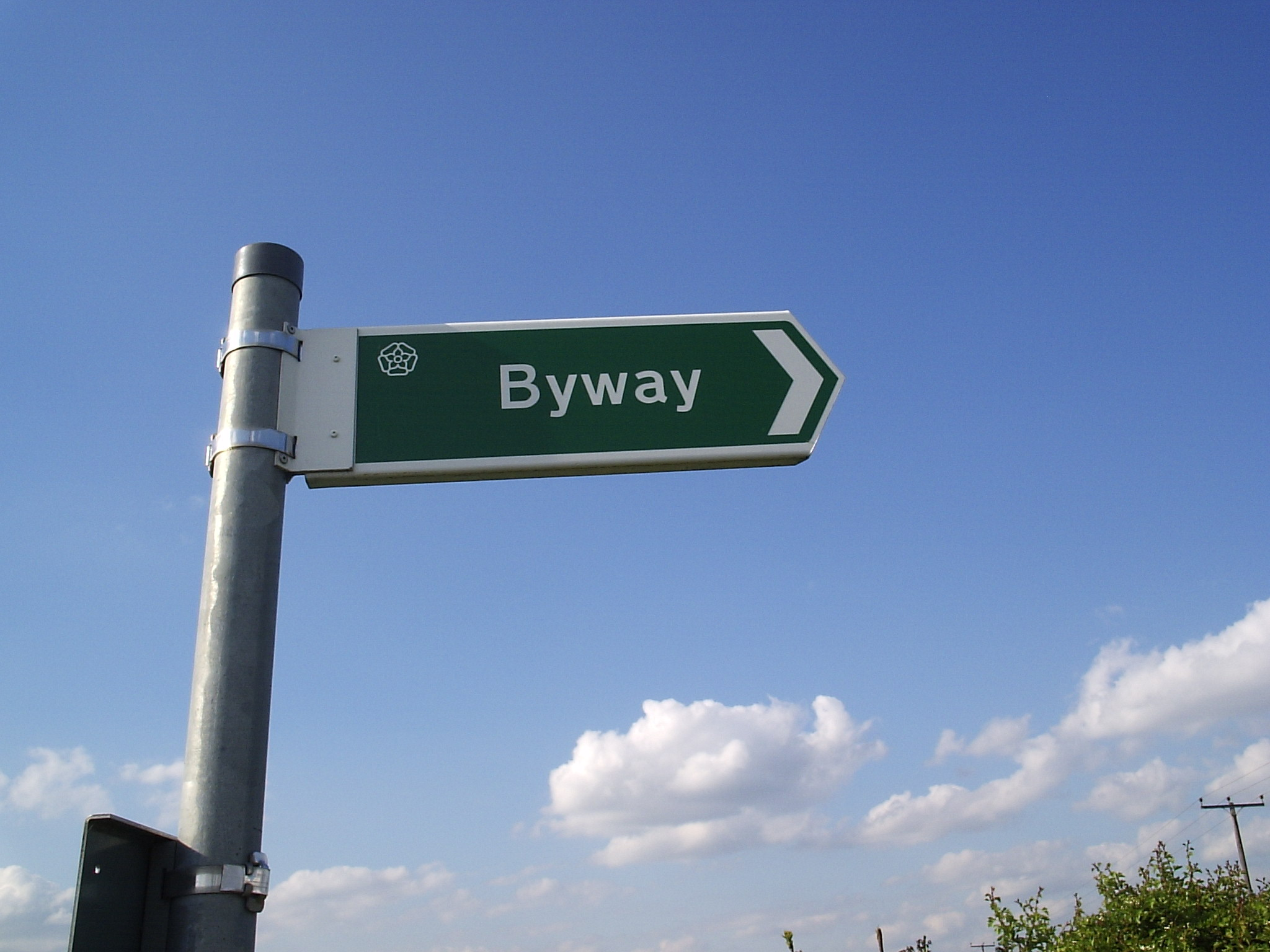 A Byway sign - taken at Blackmile Lane, Grendon on 10 May 2005 by RN Marshman